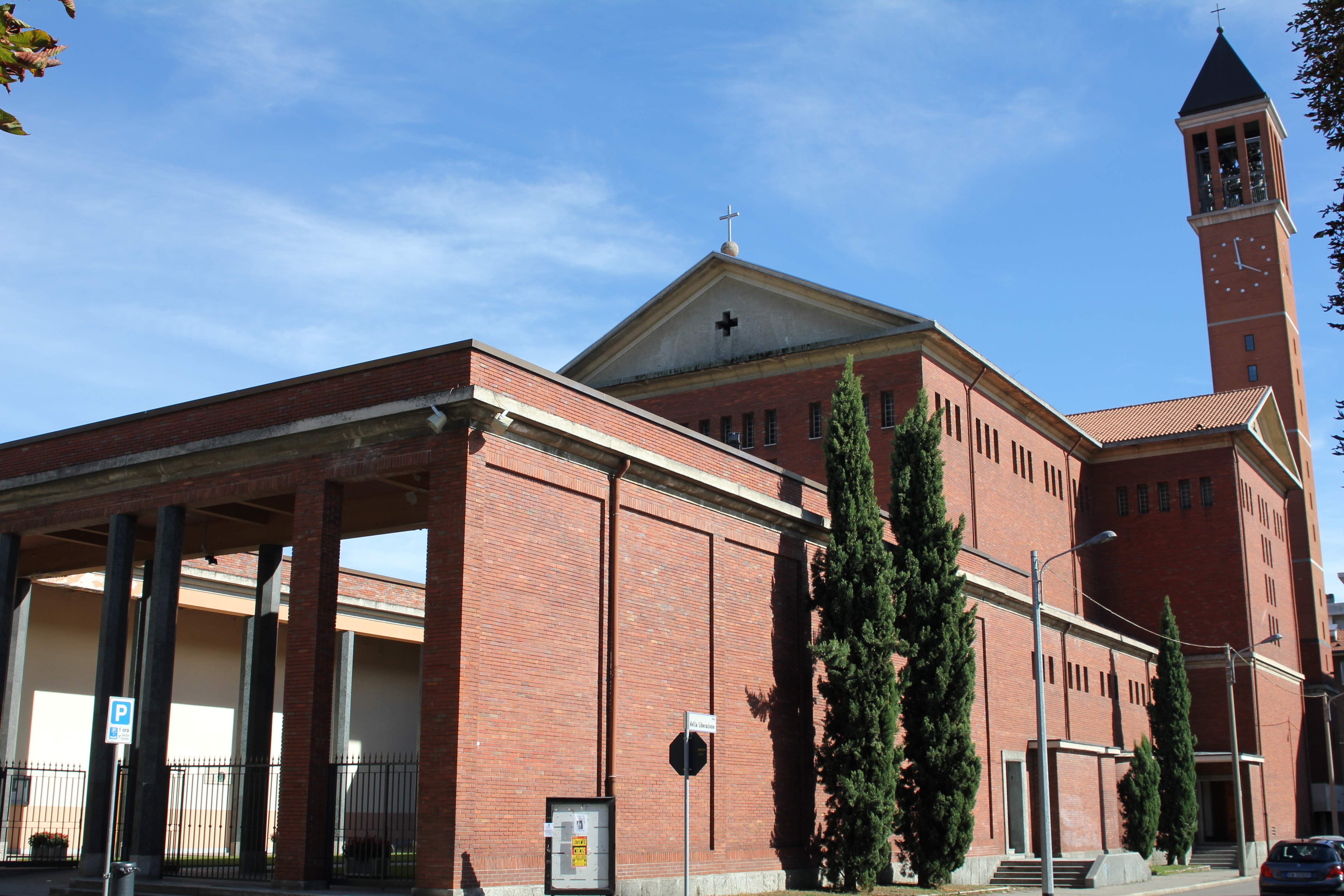 Chiesa di sant'Edoardo re e confessore